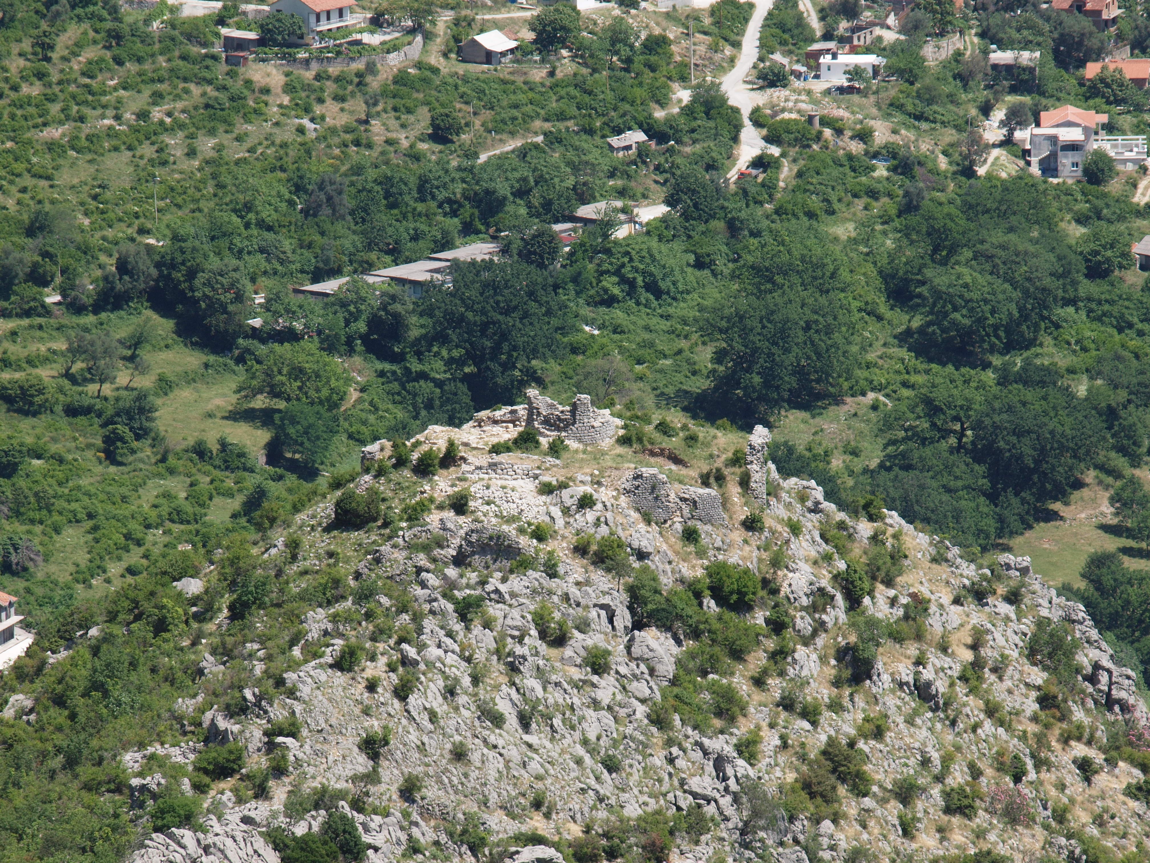 Medieval fortress Risan, Montenegro